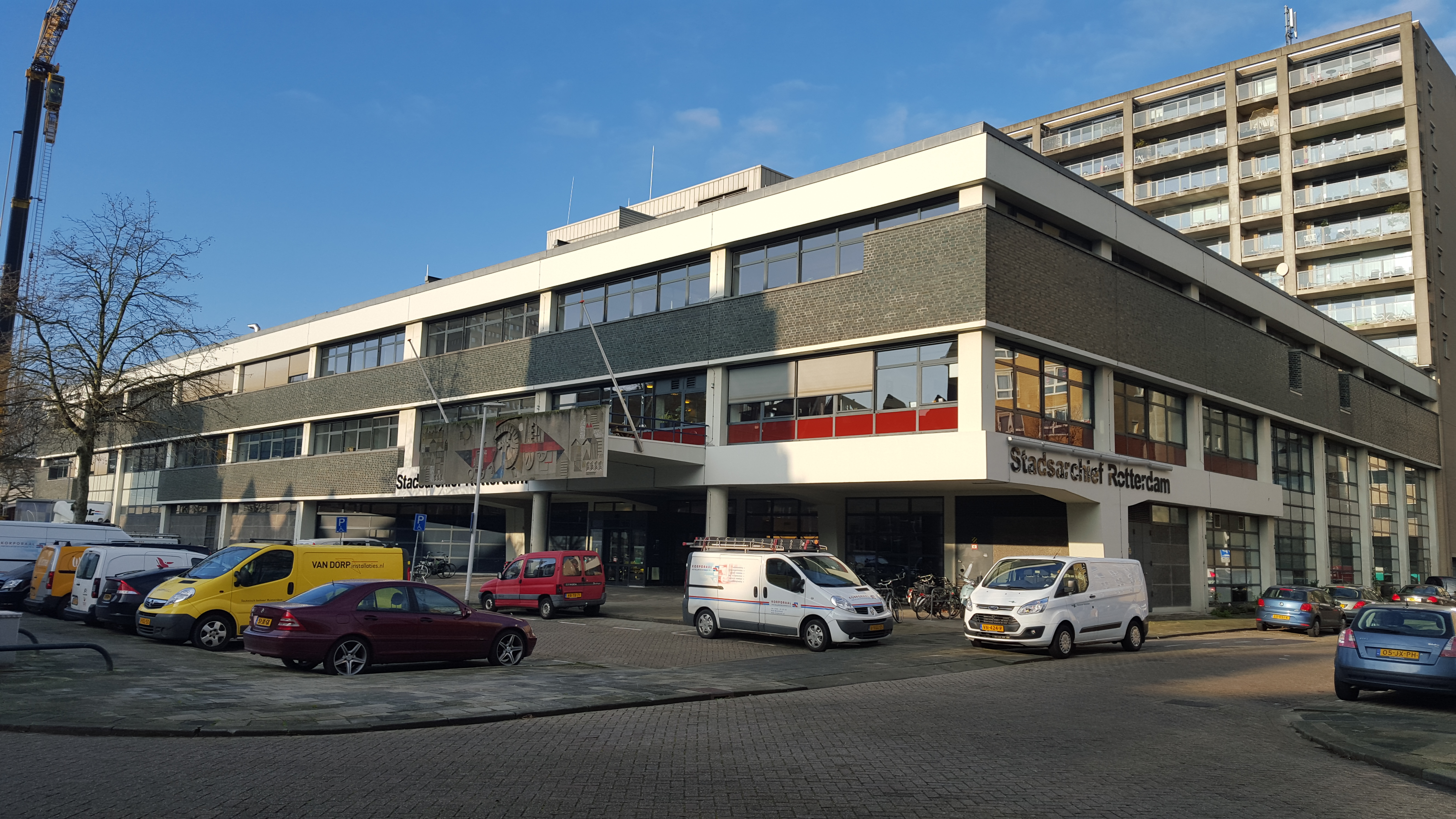 exterior of the Stadsarchief Rotterdam in December 2015